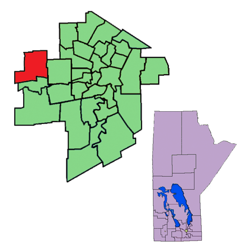 The 1999-2011 boundaries for the Assiniboia electoral district highlighted in red